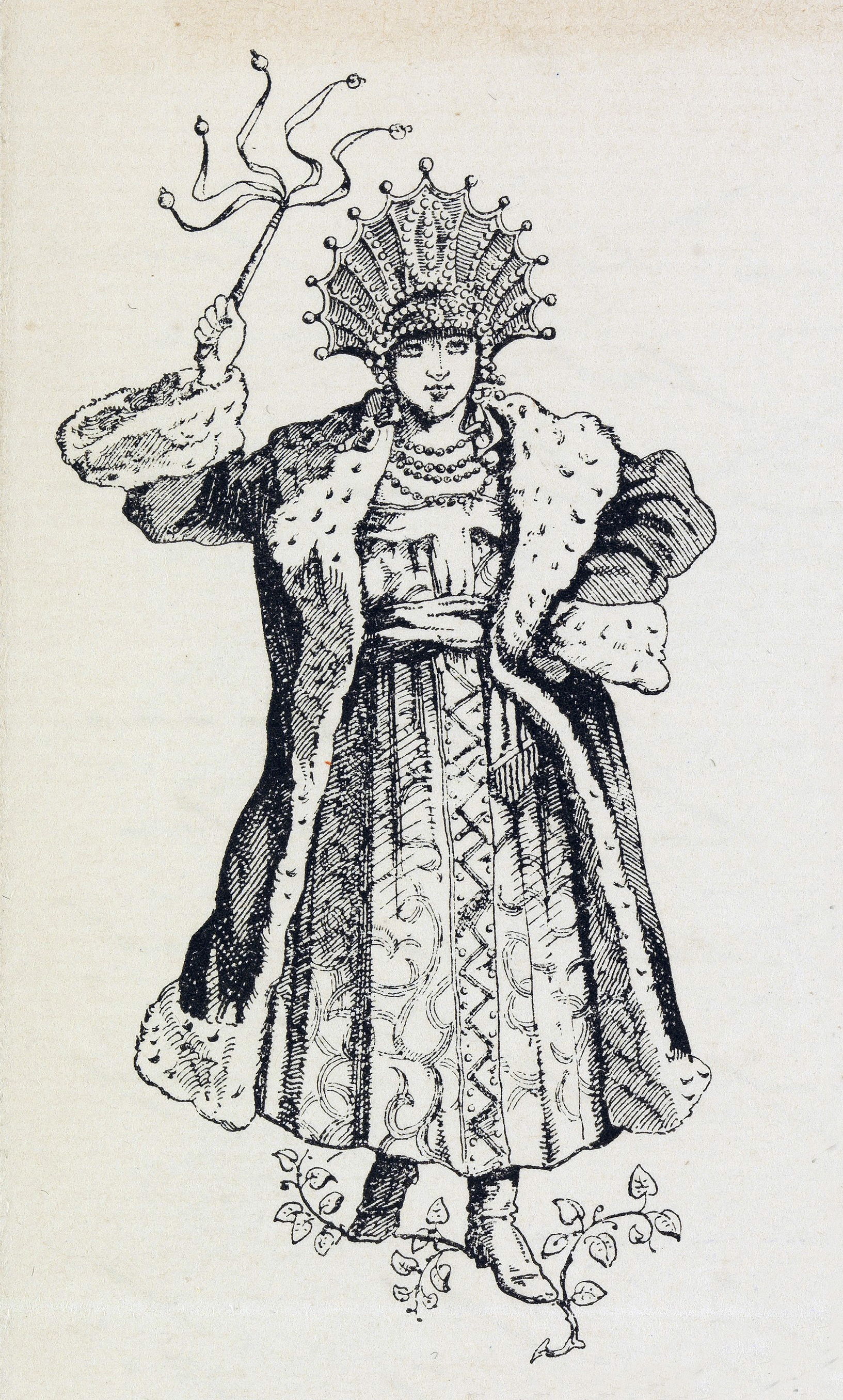 Letter written by Sacher-Masoch on his stationary. Wellcome Library MS. 6909 - L0072452.